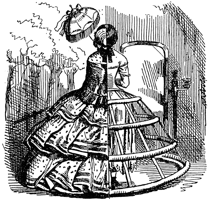 Cutaway view of crinoline costume, Punch August 1856; Crinoline cutaway diagram from Punch magazine, August 1856.